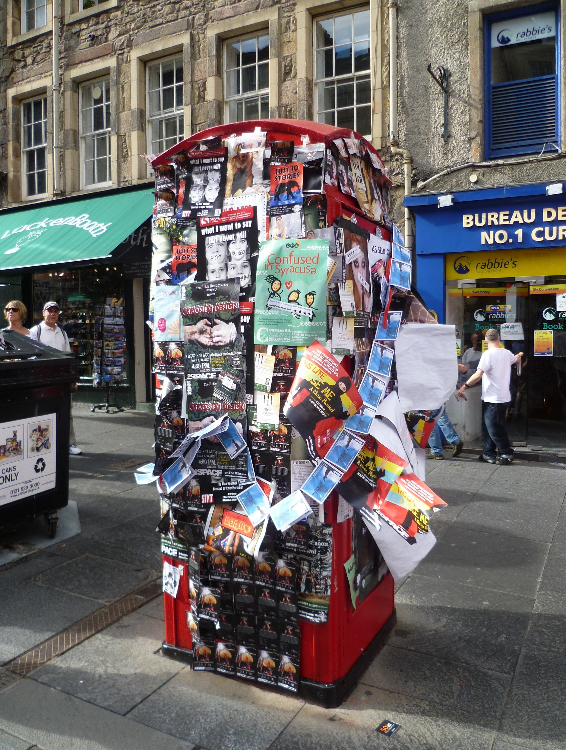 High Street phone booth covered in Fringe show flyers and posters during the Edinburgh Festival (2013)